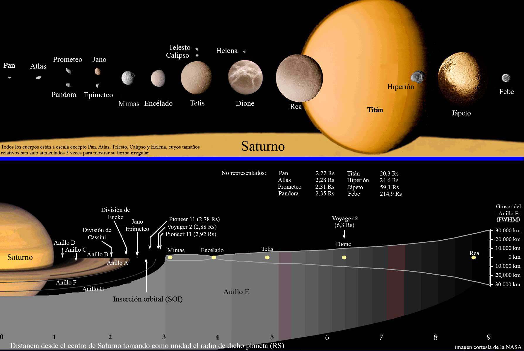 Map of the Saturn system (NASA) * image source: NASA